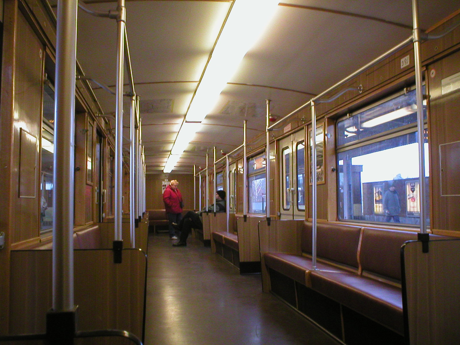 The Berlin U-Bahn train type EIII, interior